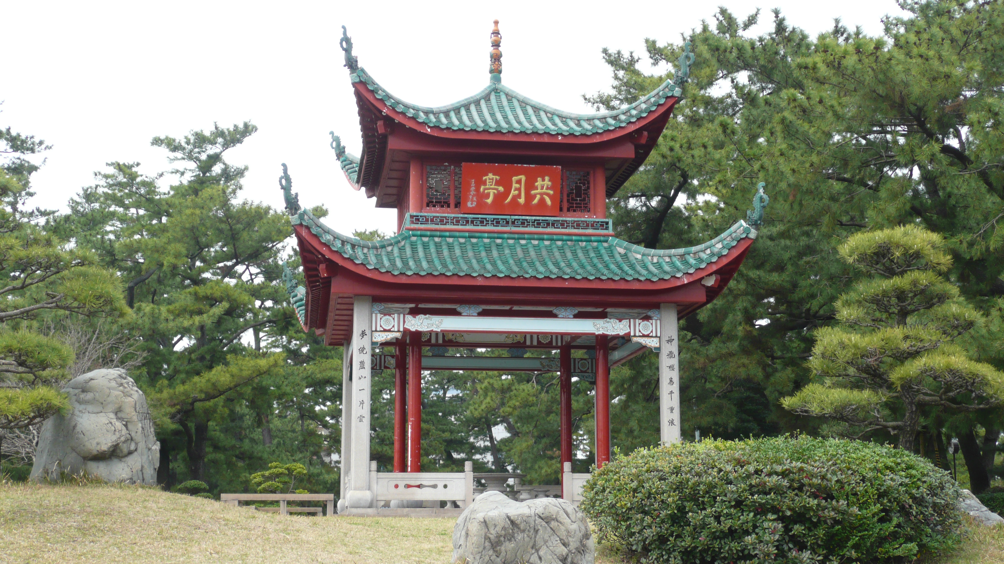 Kyougetsu Tei (Kagoshima City, Japan)